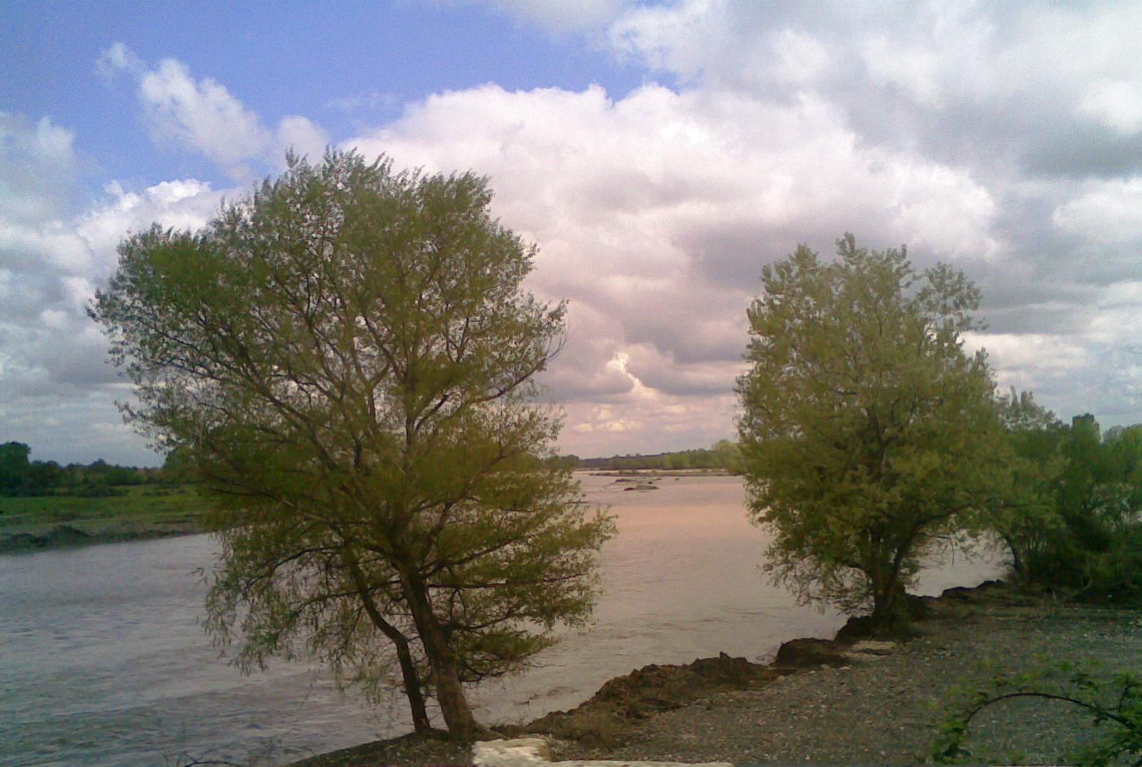 river Alazani